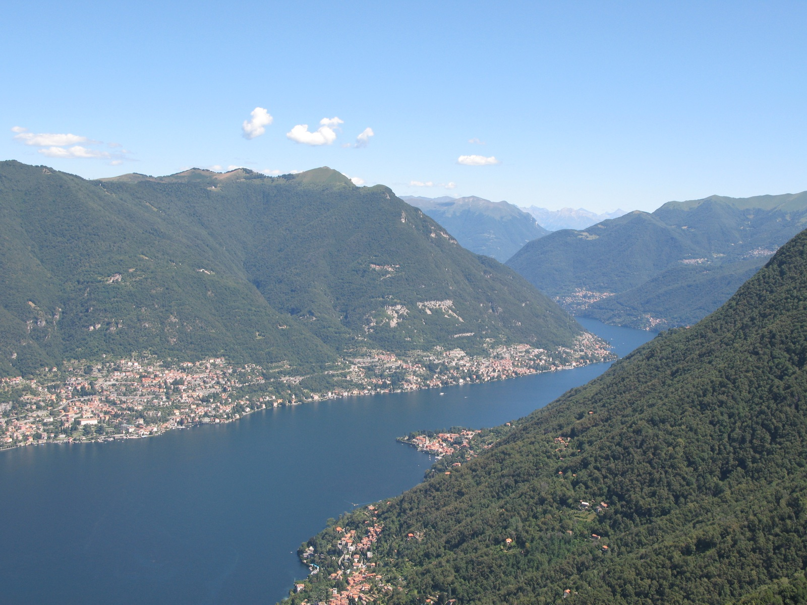 View of Lake Como from Brunate lighthouse